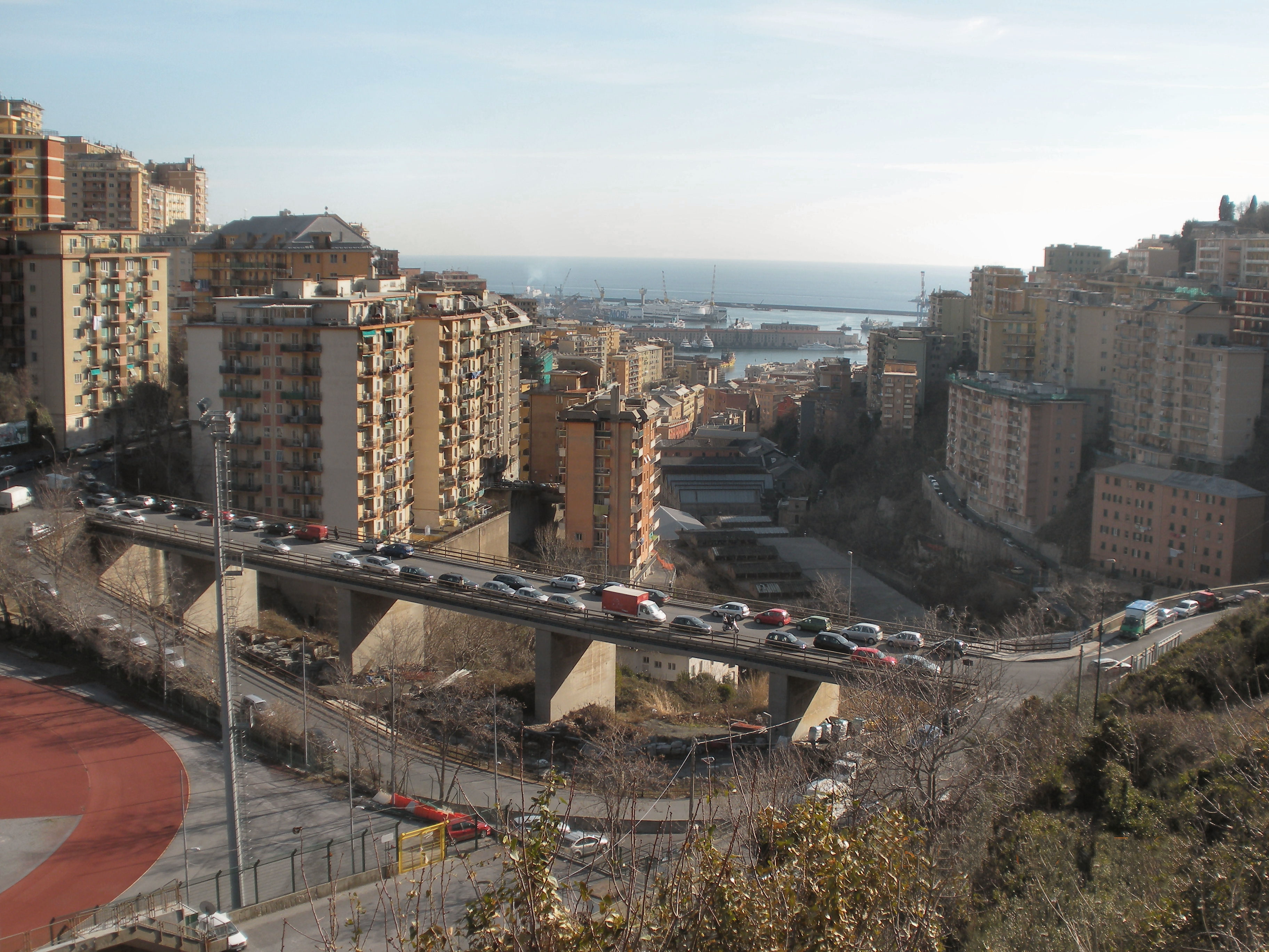 Genoa (Italy), "Don Acciai" bridge in Lagaccio valley